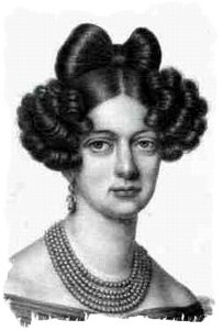 extract of portrait